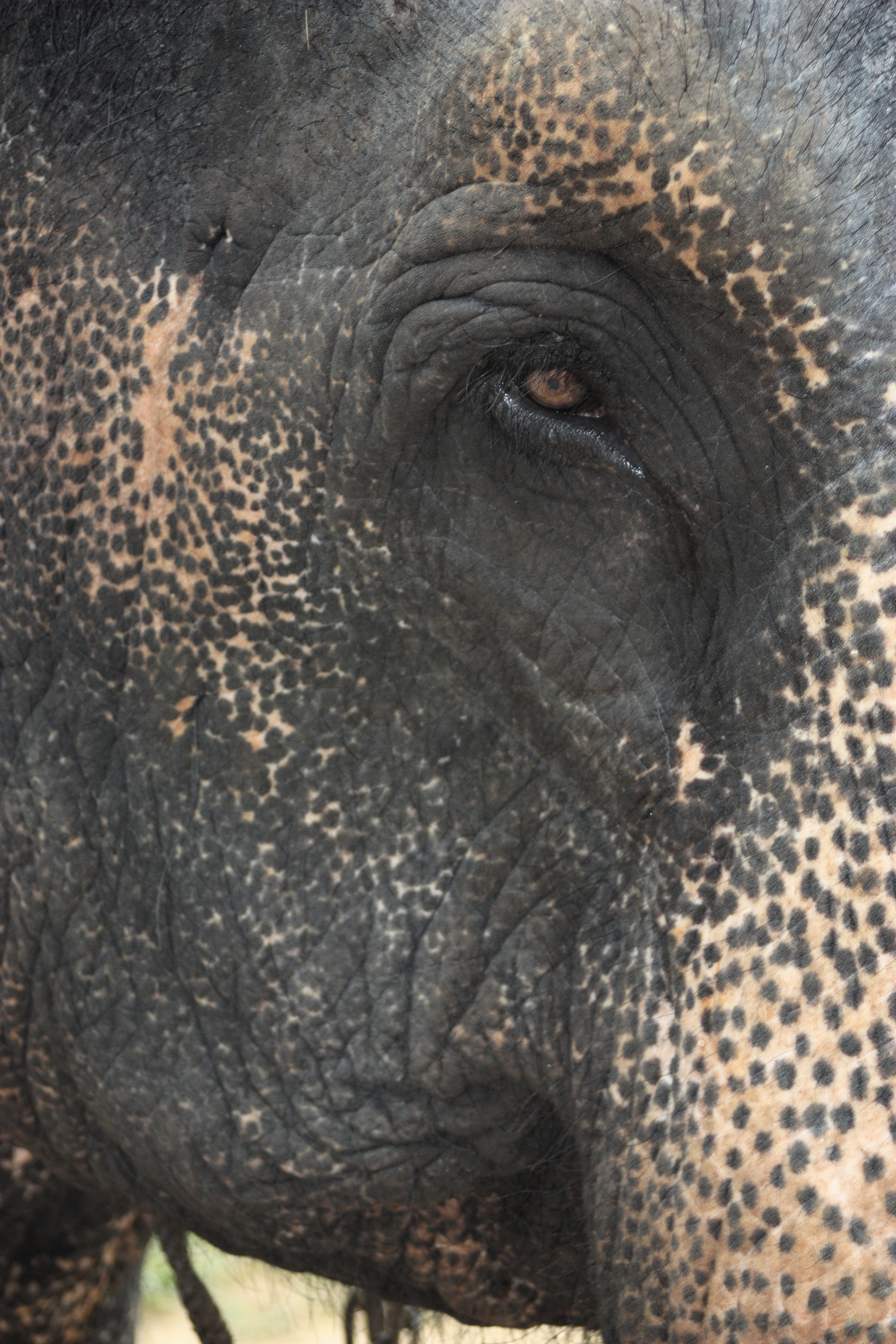 Portrait of an Asian elephant (of Sri Lanka, Elephas m. maximus), taken in Sri Lanka at the Pinnawala Elephant Orphanage.